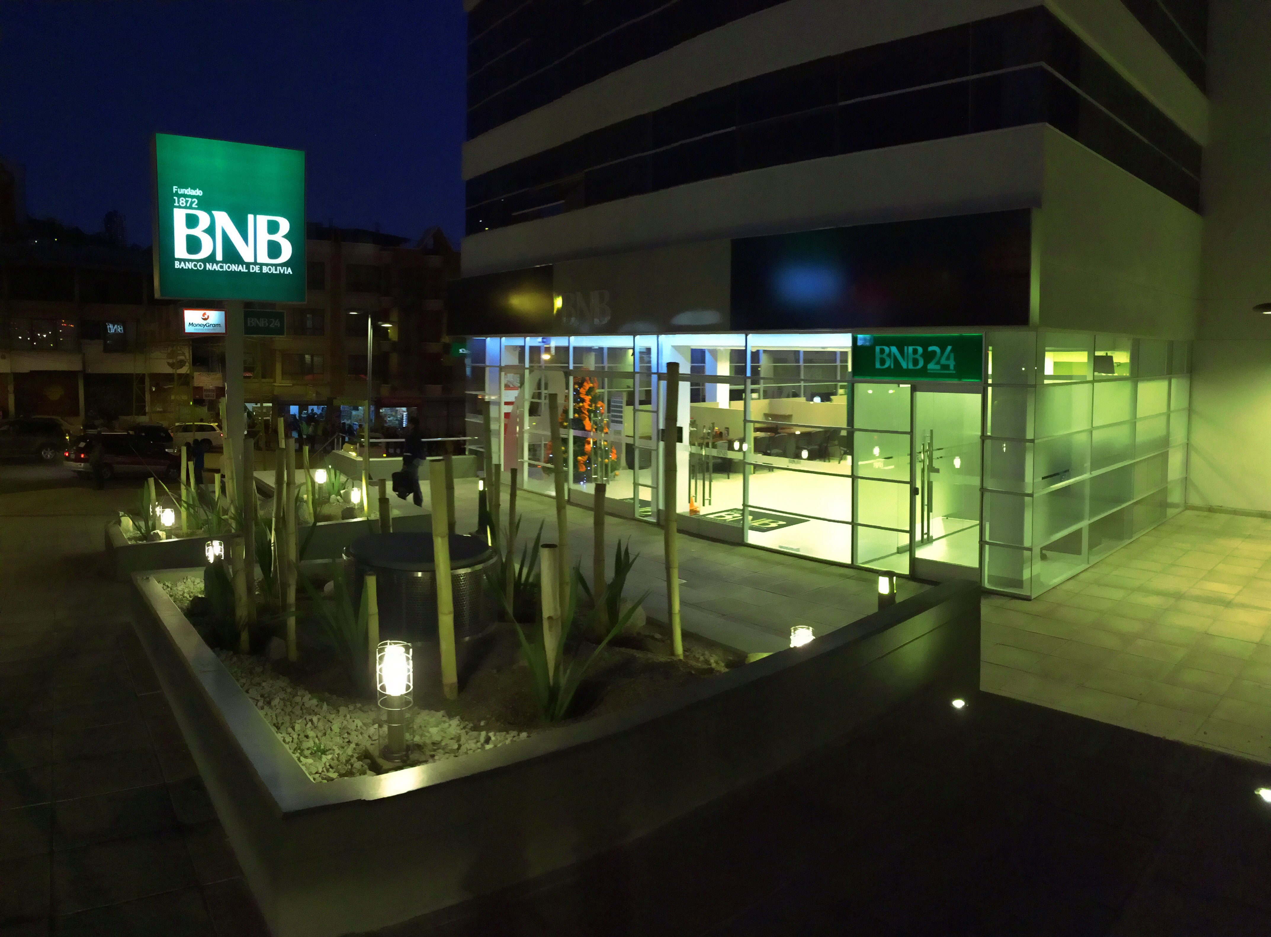 BNB branch in La Paz, Bolivia